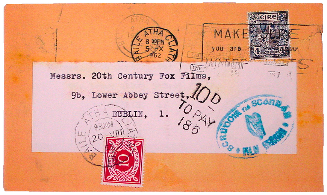 Cover with official oval certifying cachet reading Scrúdóir na Scannán/Film Censor of the Irish Film Censor's Office with postage due instruction mark and Irish 10d postage due stamp applied because the postage was underpaid.